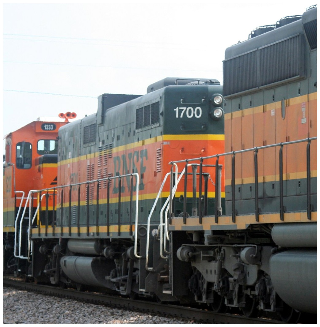 Burlington Northern Santa Fe #1700, EMD GP9B